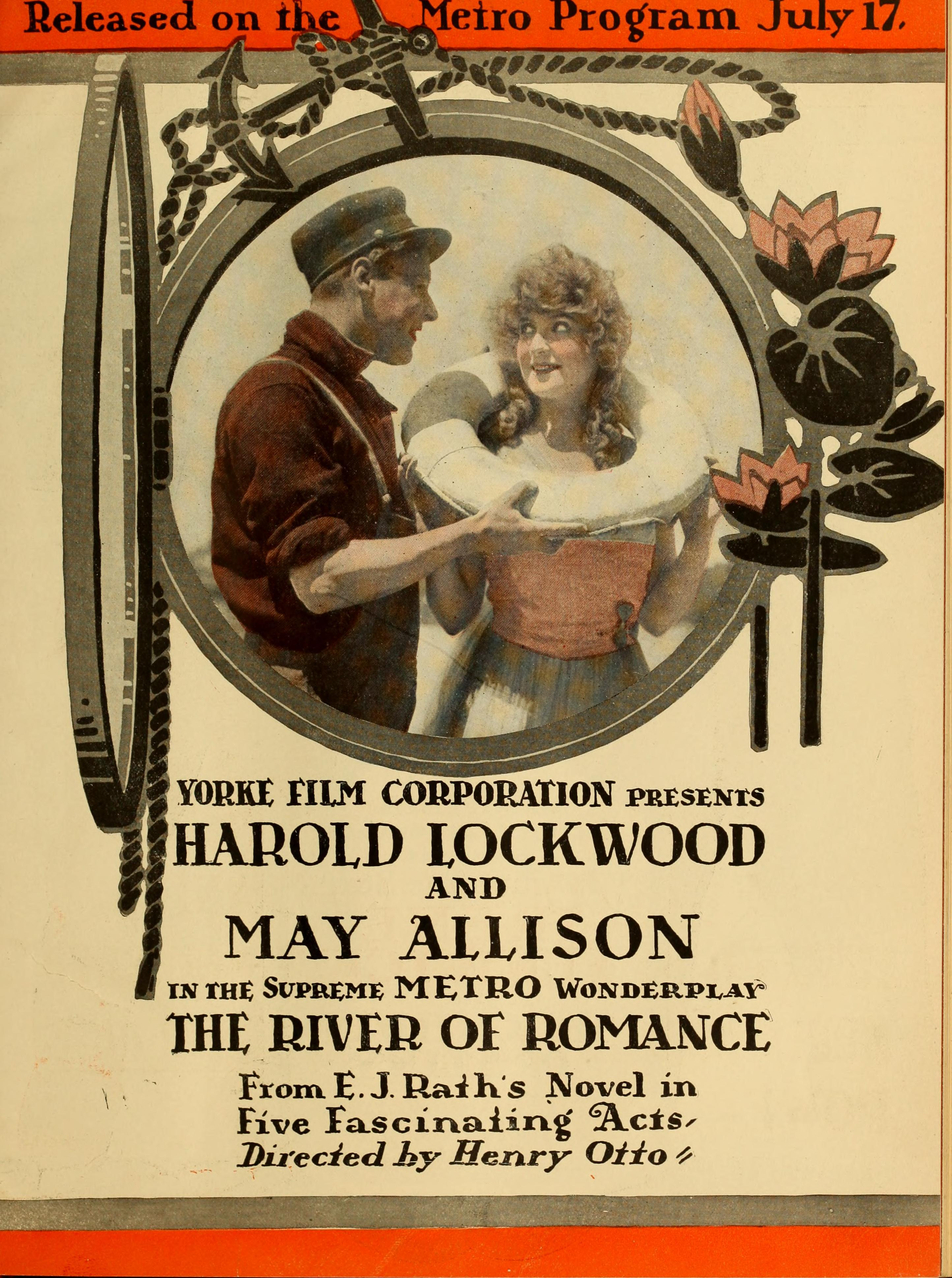 Advertisement in The Moving Picture World for the American film The River of Romance (1916).